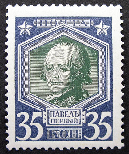 Stamp of Russia